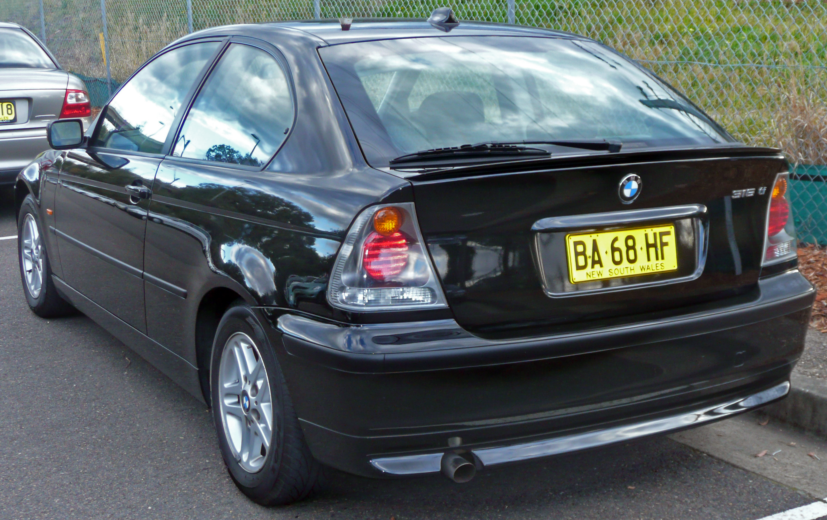 2001–2003 BMW 316ti (E46) hatchback. Photographed in Sutherland, New South Wales, Australia.